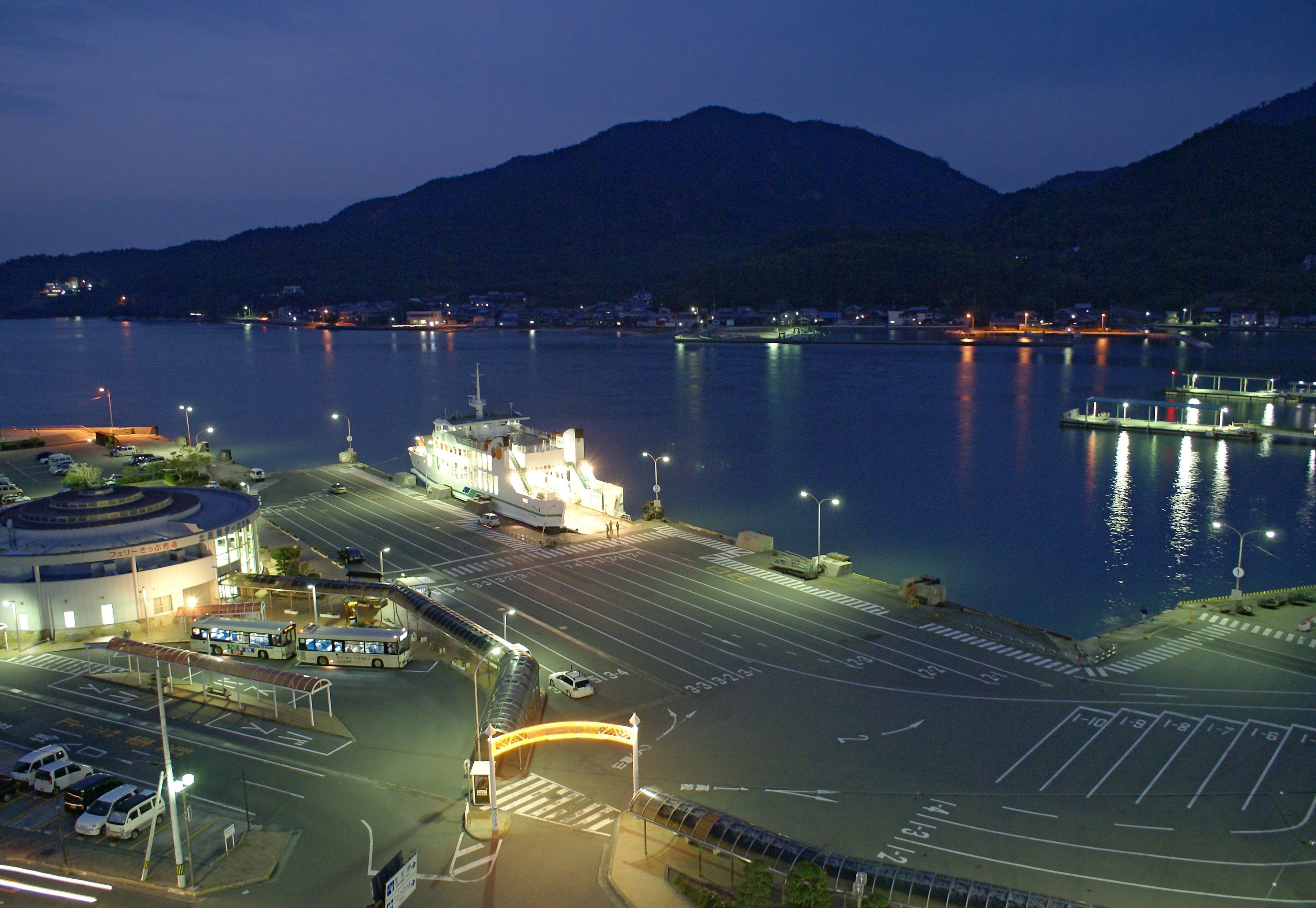 Tonosho port in Shodoshima island Kagawa Prefecture, Japan)